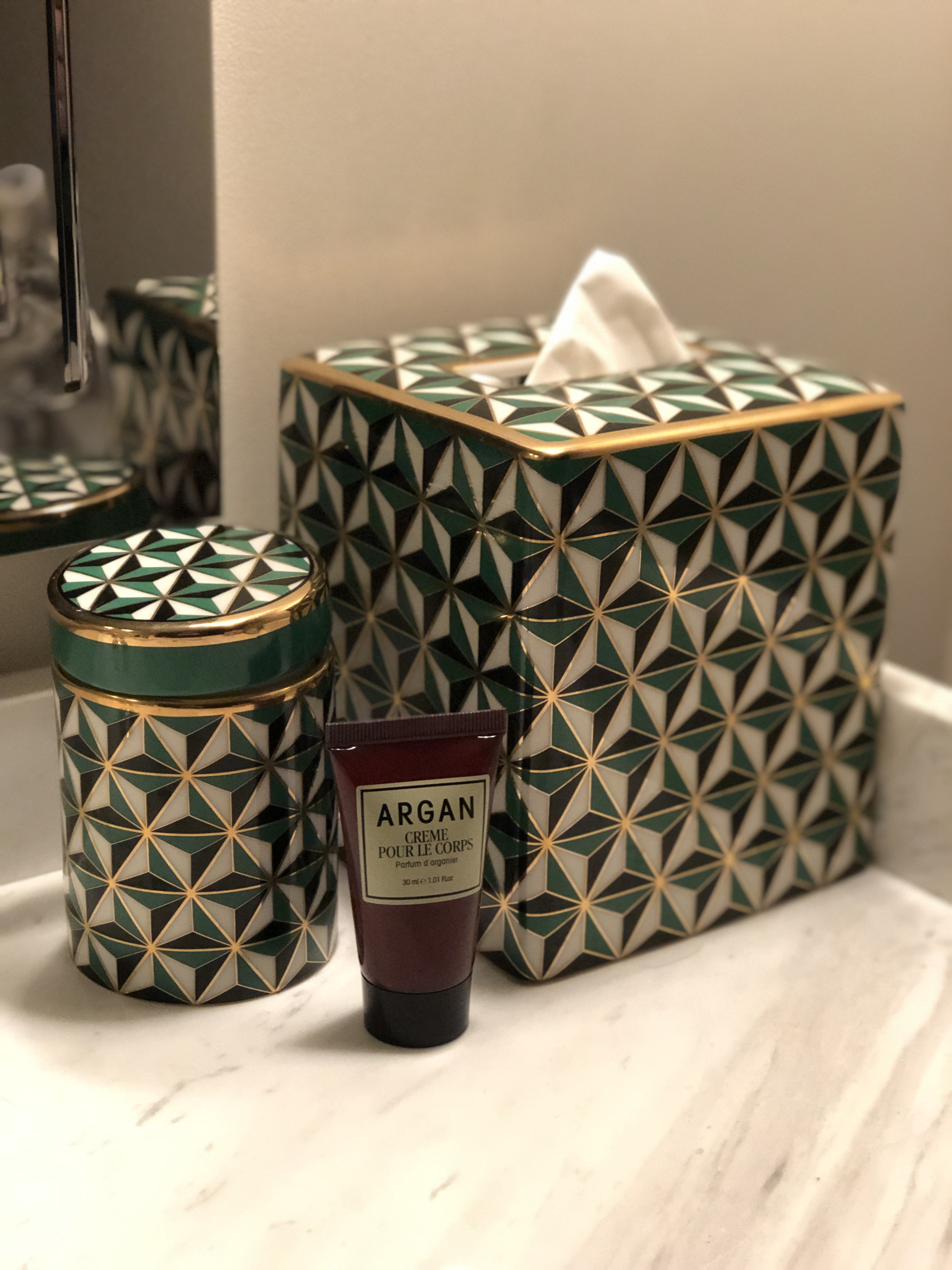 Jonathan Adler designs at NoMad Las Vegas, Las Vegas, Nevada